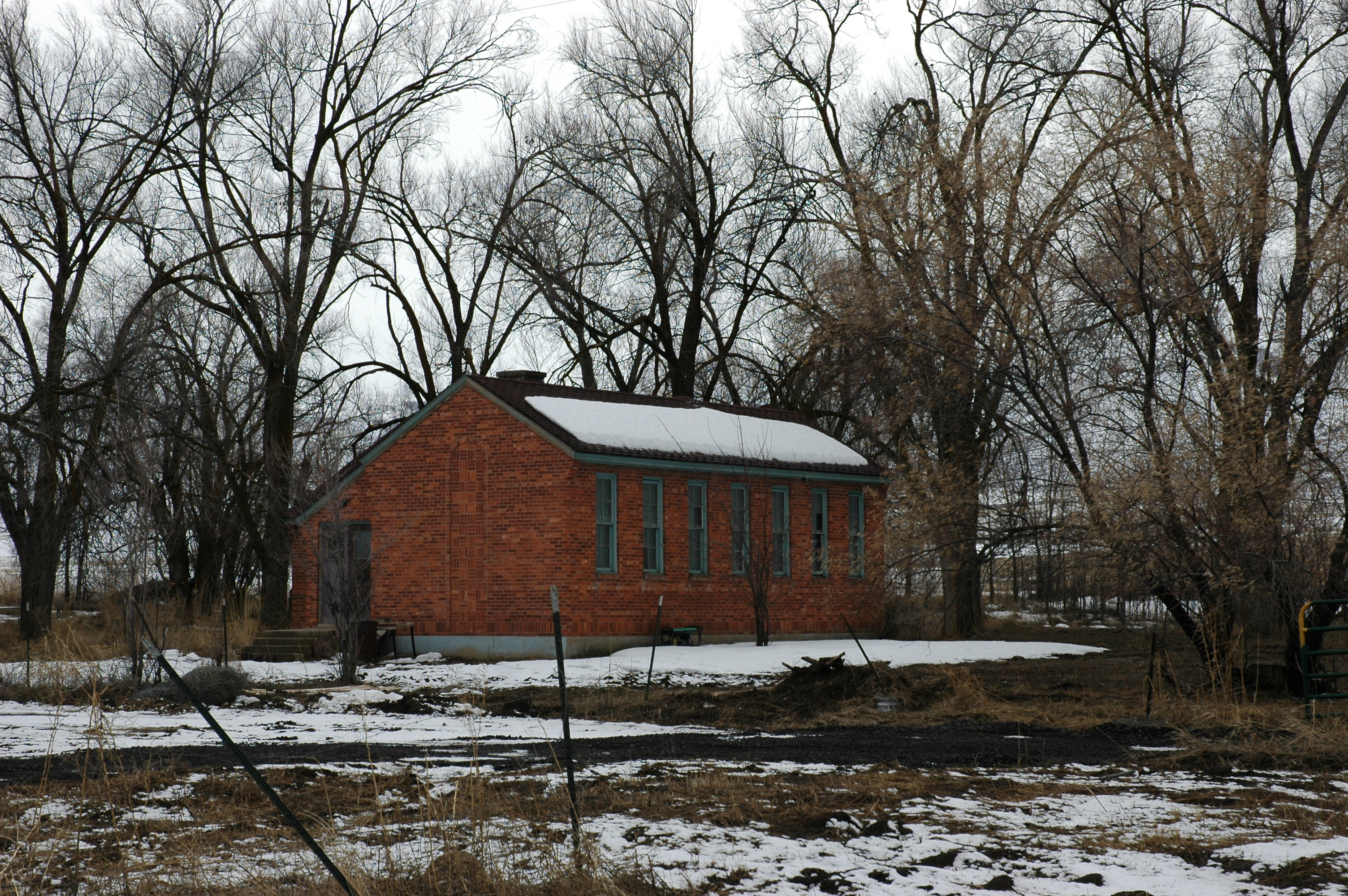 The Washakie LDS Ward Chapel, a historic meetinghouse of The Church of Jesus Christ of Latter-day Saints located in the former Northwestern Shoshone settlement of Washakie, Utah, United States.